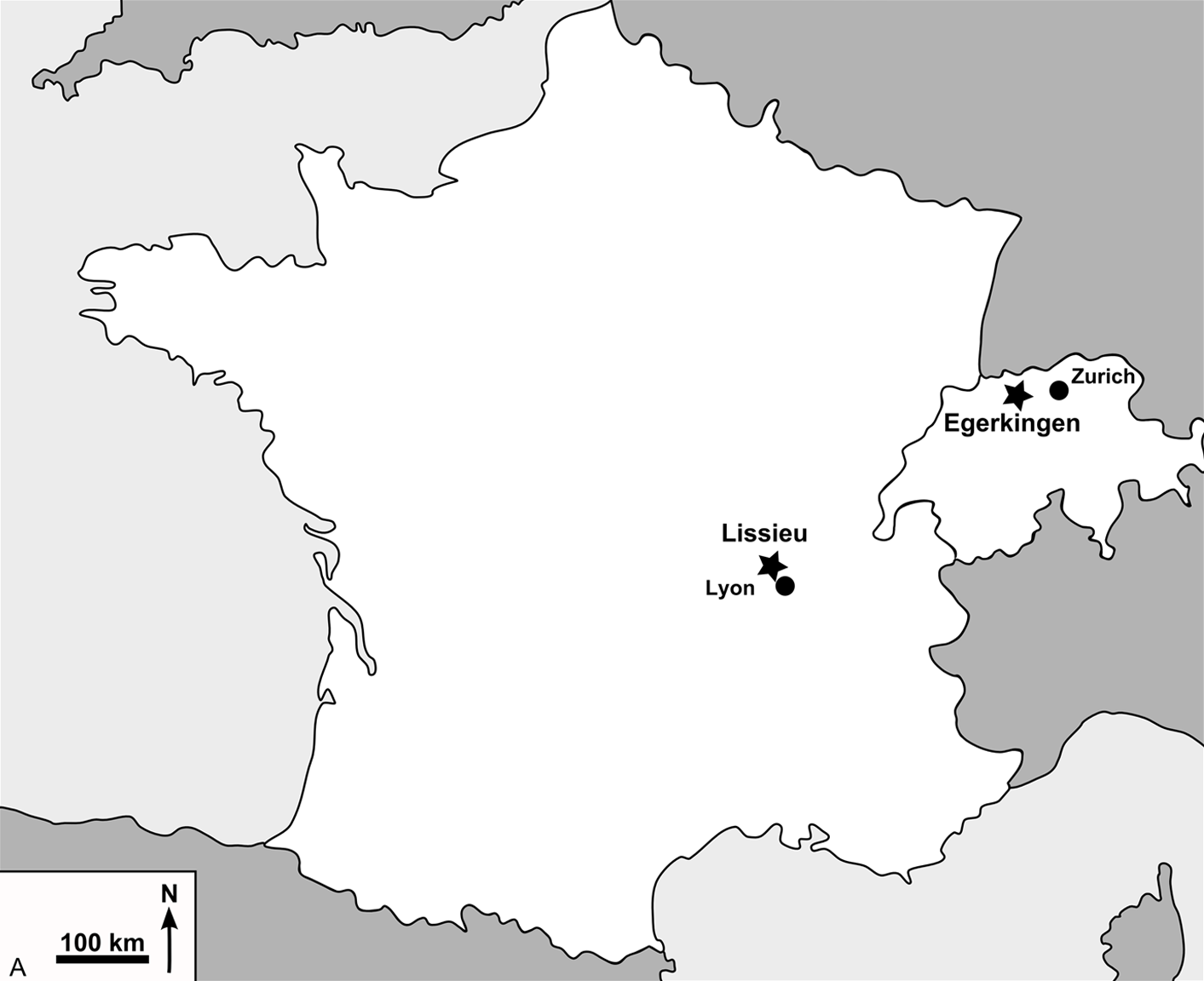 Geographical and stratigraphic setting of Eleutherornis cotei: A) Geographical location of the sites of Lissieu (France) and Egerkingen (Switzerland); B) Stratigraphic level of Eleutherornis cotei from Lissieu and Egerkingen.